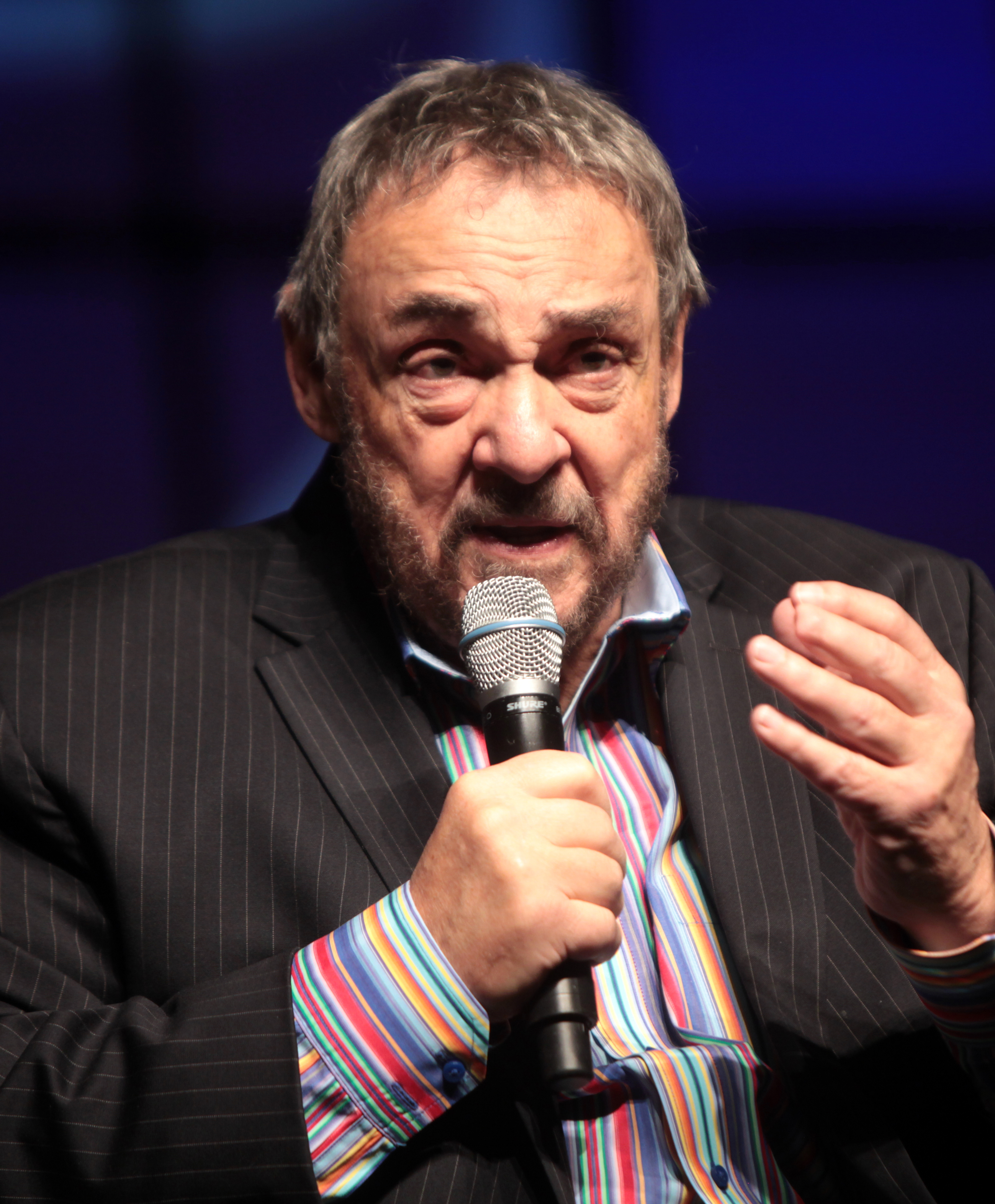 John Rhys-Davies speaking at the 2014 Phoenix Comicon on June 6, 2014.